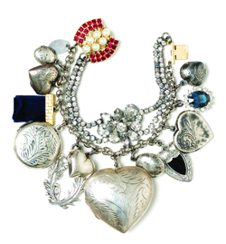 Mawi Autumn/Winter 2008 Multi Locket Charms Braclet with Velvet and Diamante Flower